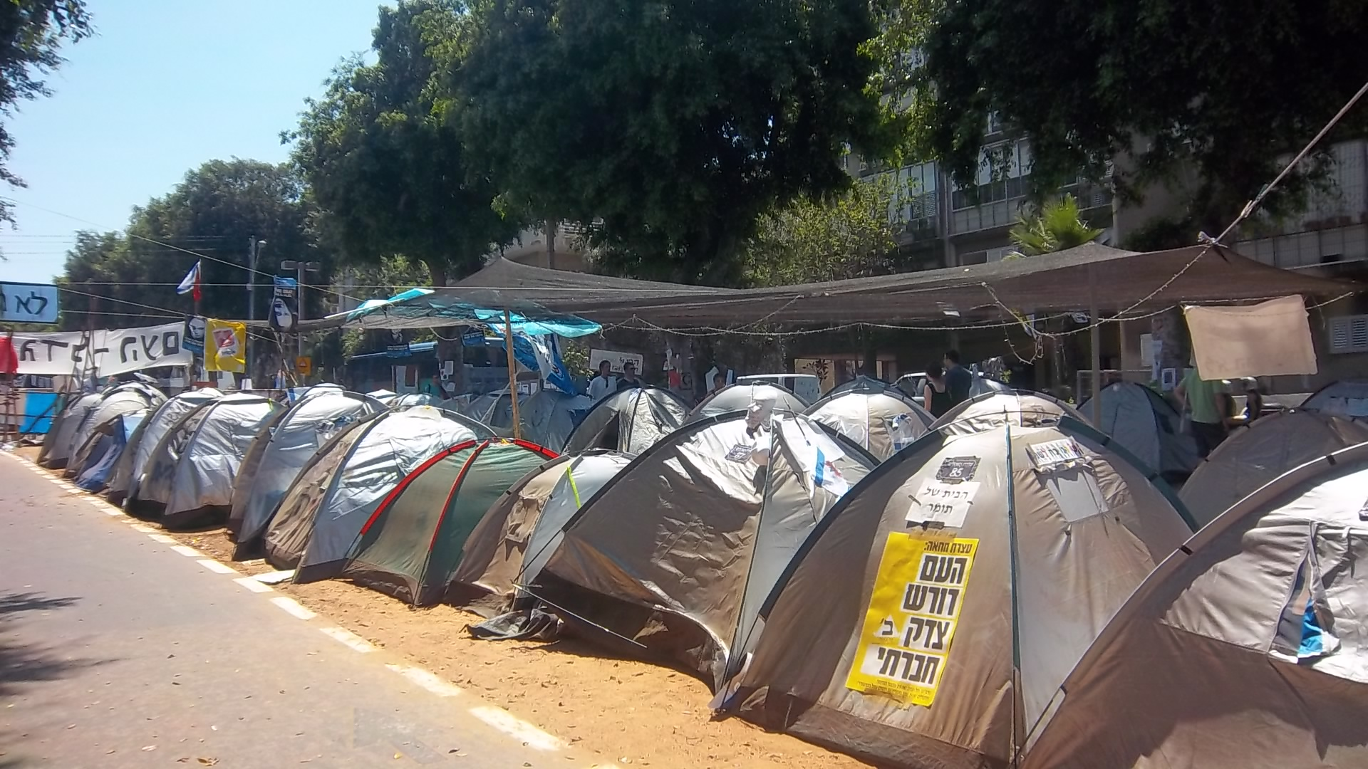 posters from Rothschild Bd at Tel Aviv